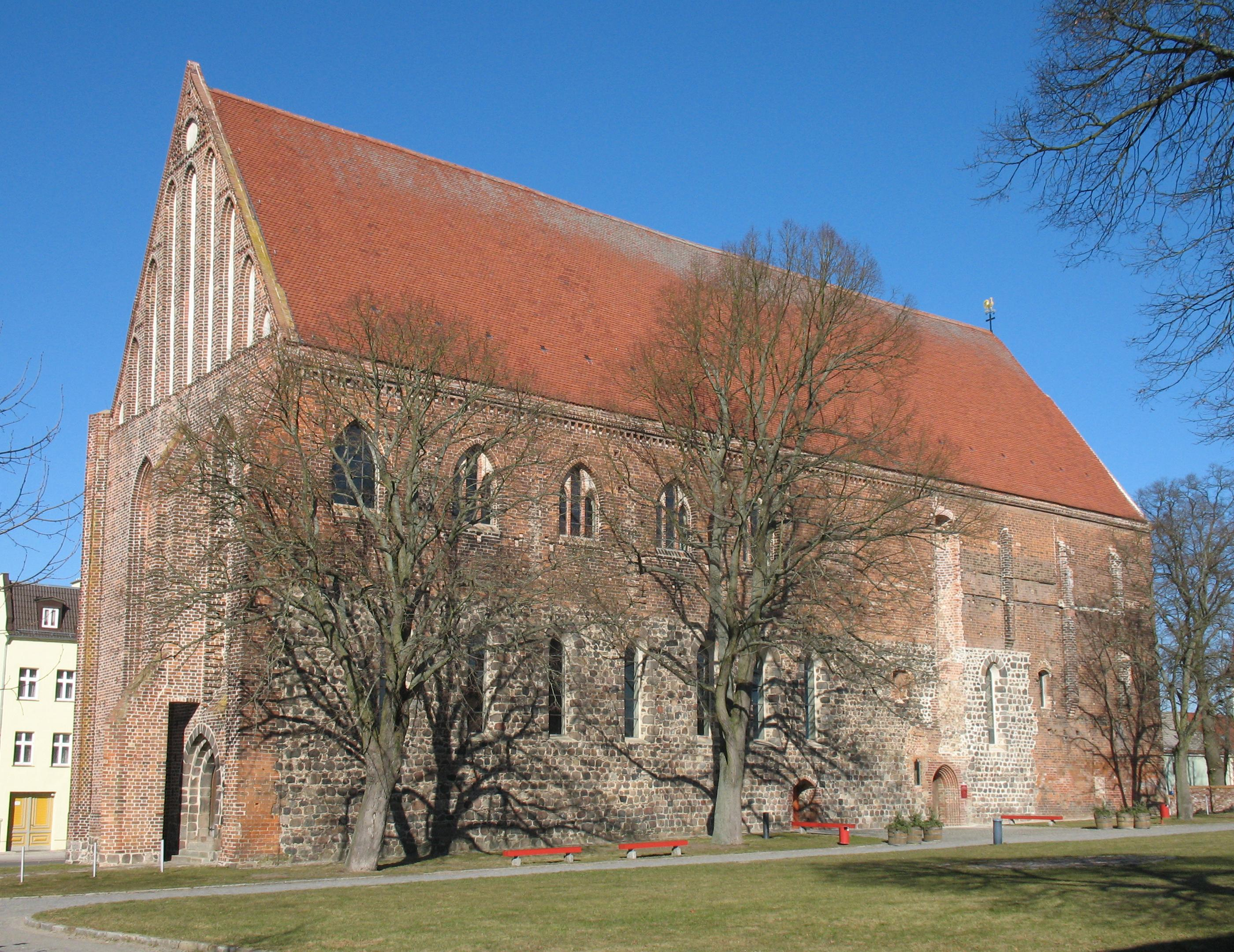 Church in Angermünde in Brandenburg, Germany